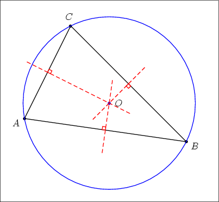 Circumcircle created with pst-eucl Category:Geometry Diagrams